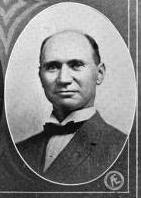 Photograph of Knoxville, Tennessee-based furniture magnate James G. Sterchi (1867–1932), cofounder of Sterchi Brothers Furniture.